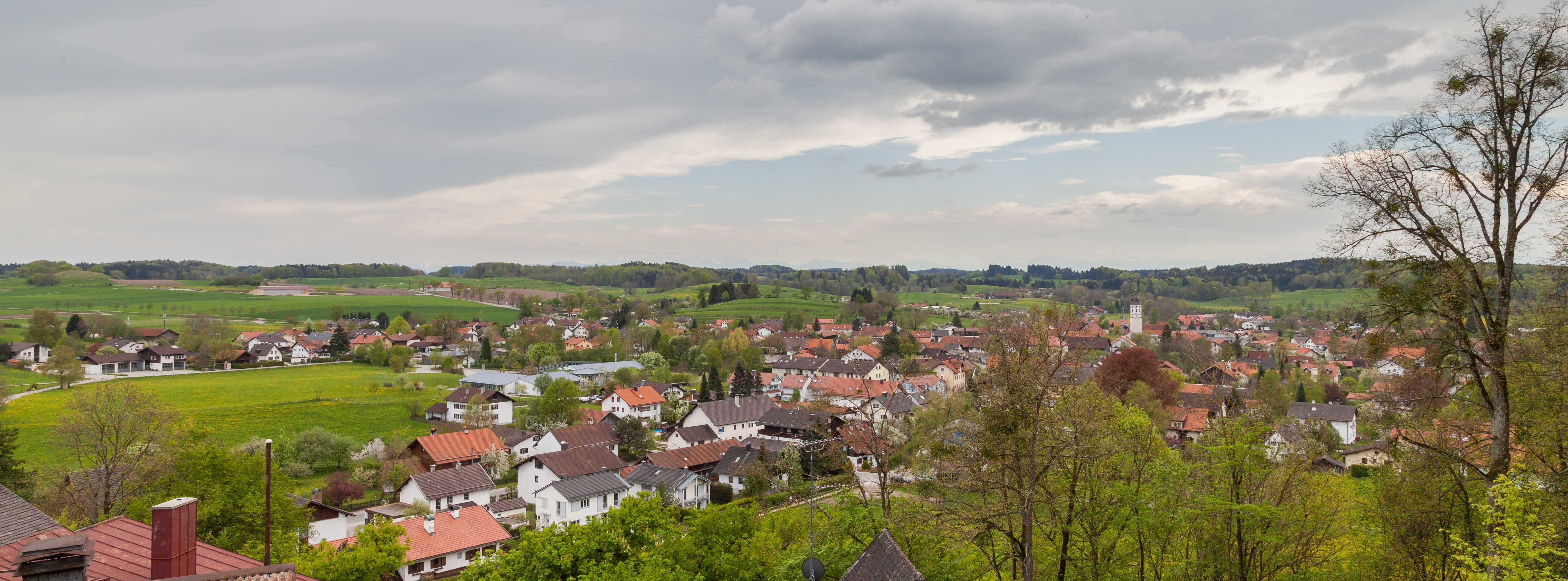 View of Andechs, Germany